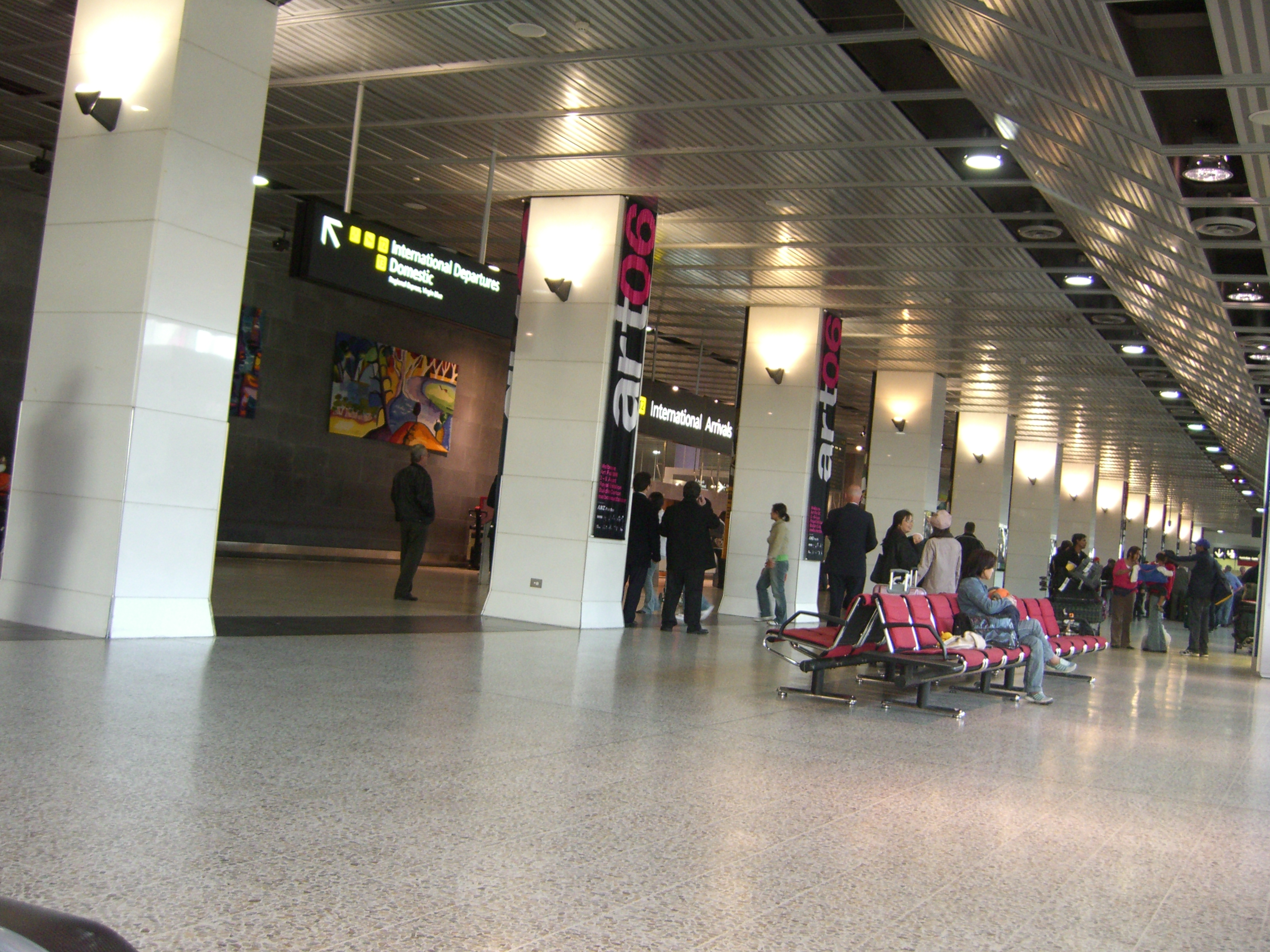 Melbourne Airport terminal